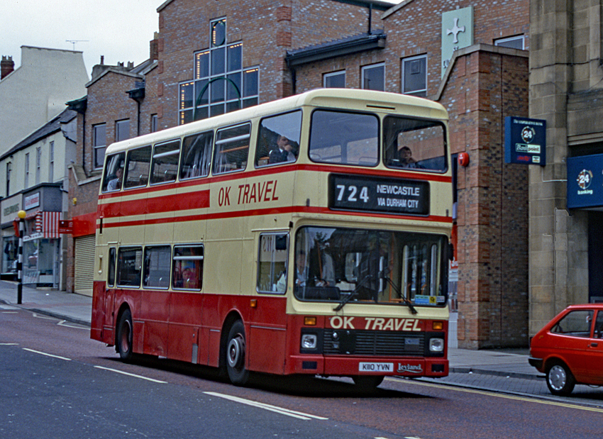 OK Travel Leyland Olympian ON2R56C16Z4 Northern Counties in Chester-le-Street. Fleet number 9110 registration number K110 YVN. Scanned from a Fujichrome 35mm slide.